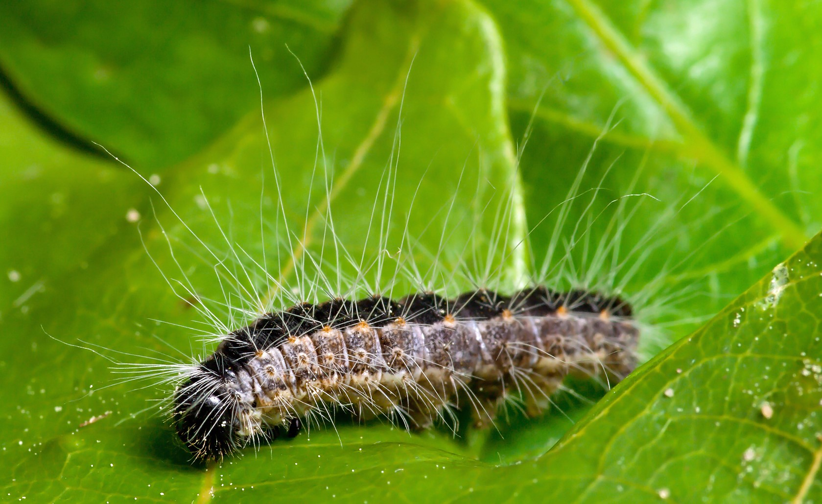 Caterpillar of Oak Processionary (Thaumetopoea processionea). Body length ~10 mm.